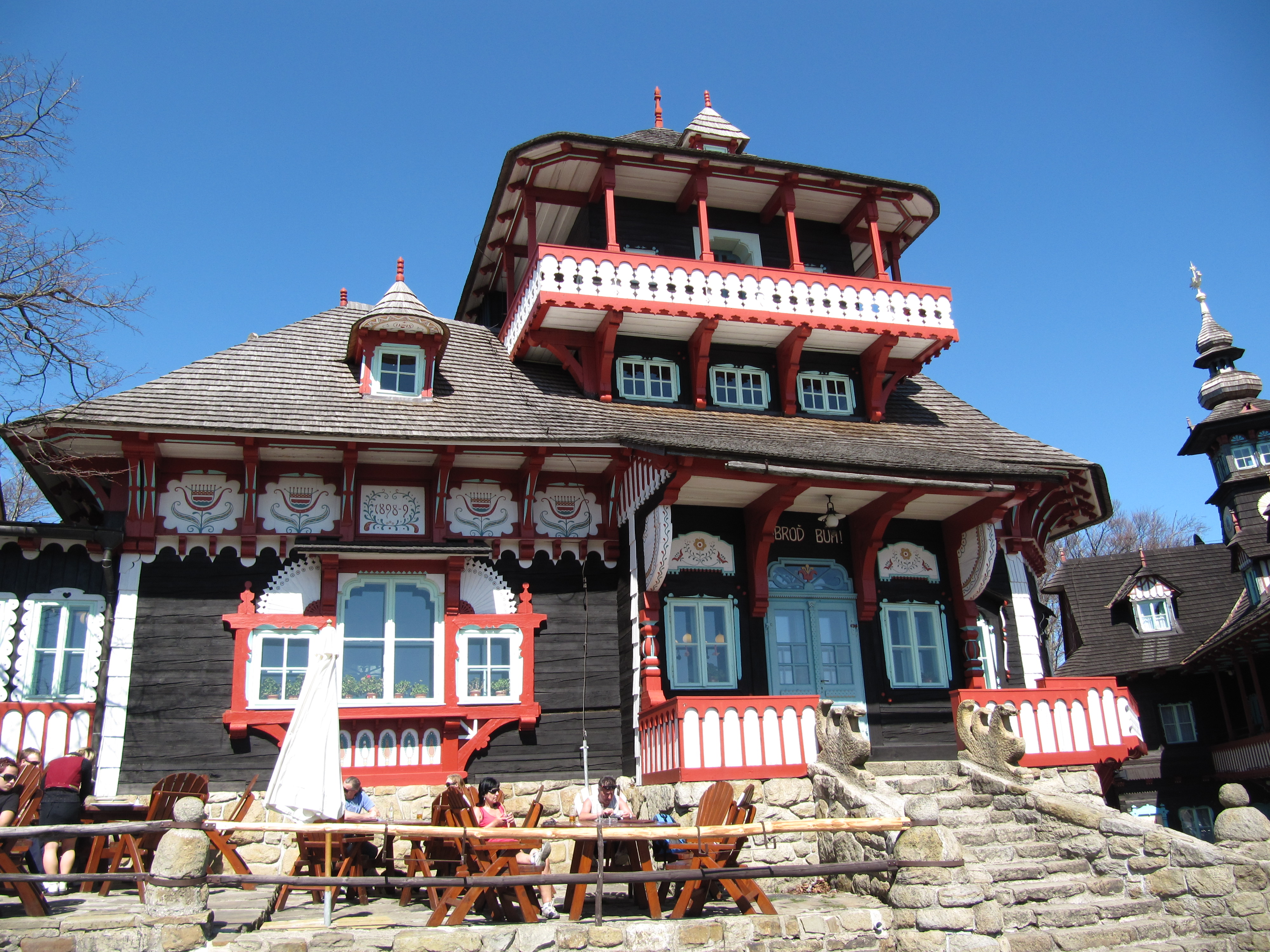 Libušín. Pustevny in Moravian-Silesian Beskids, Czech Republic